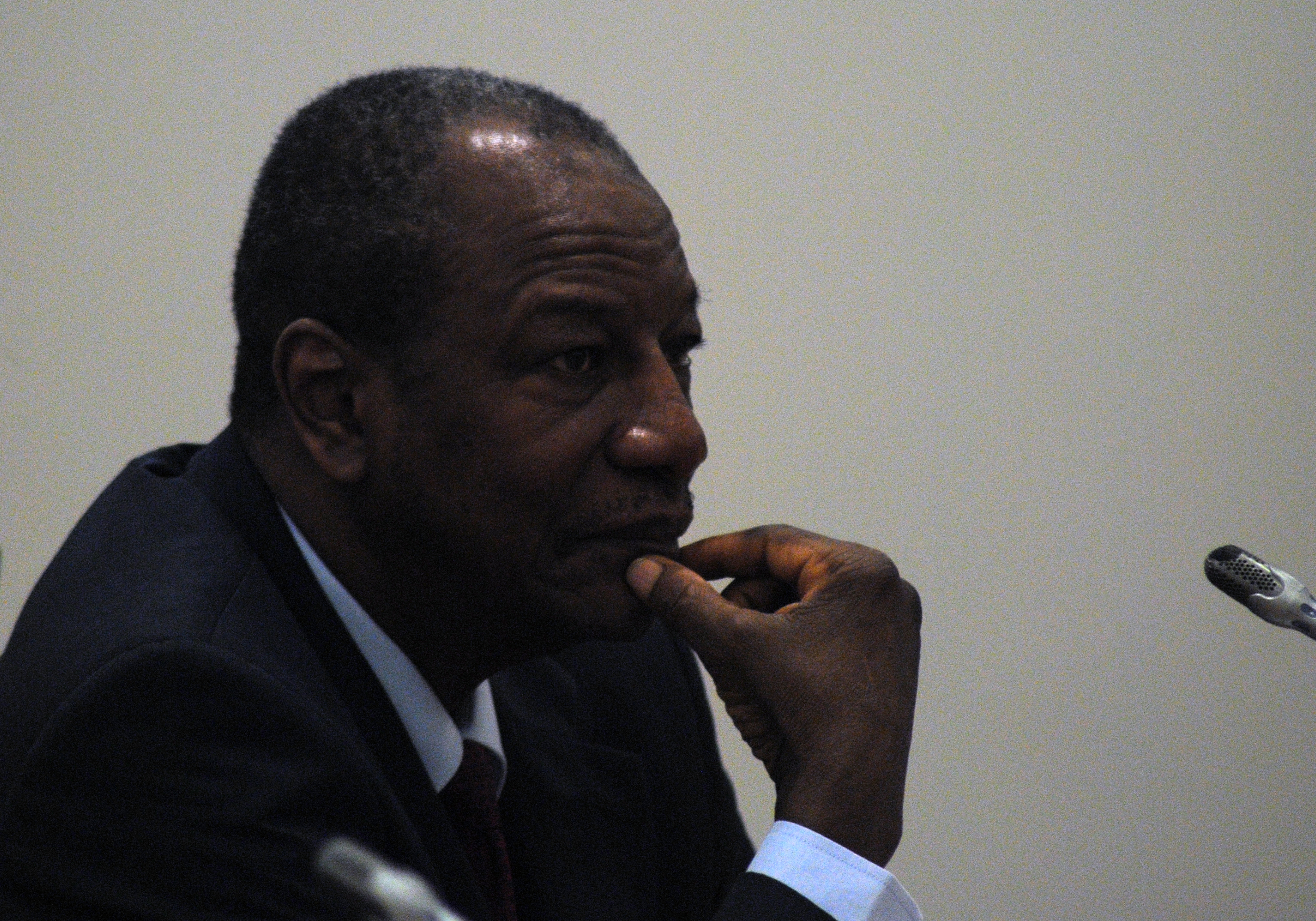 Guinea in Transition: Reform, Resources and Regional Relations, 14 June 2013 cht.hm/1207rVe